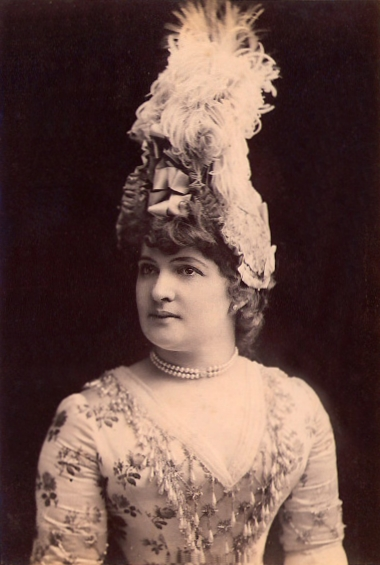 Photograph of actress Annie Pixley (d. 1893)